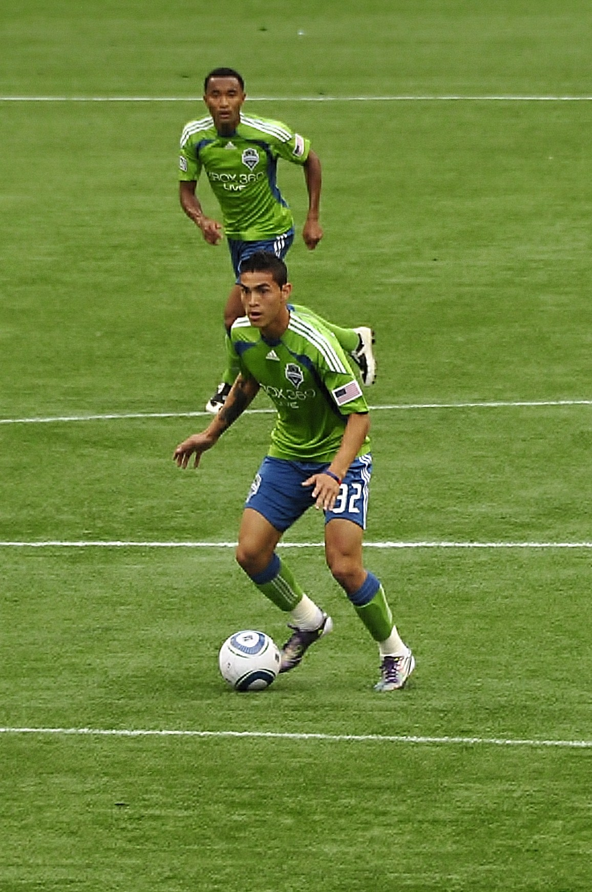 Montano and Riley during Sounders FC v. FC Dallas on July 11, 2010